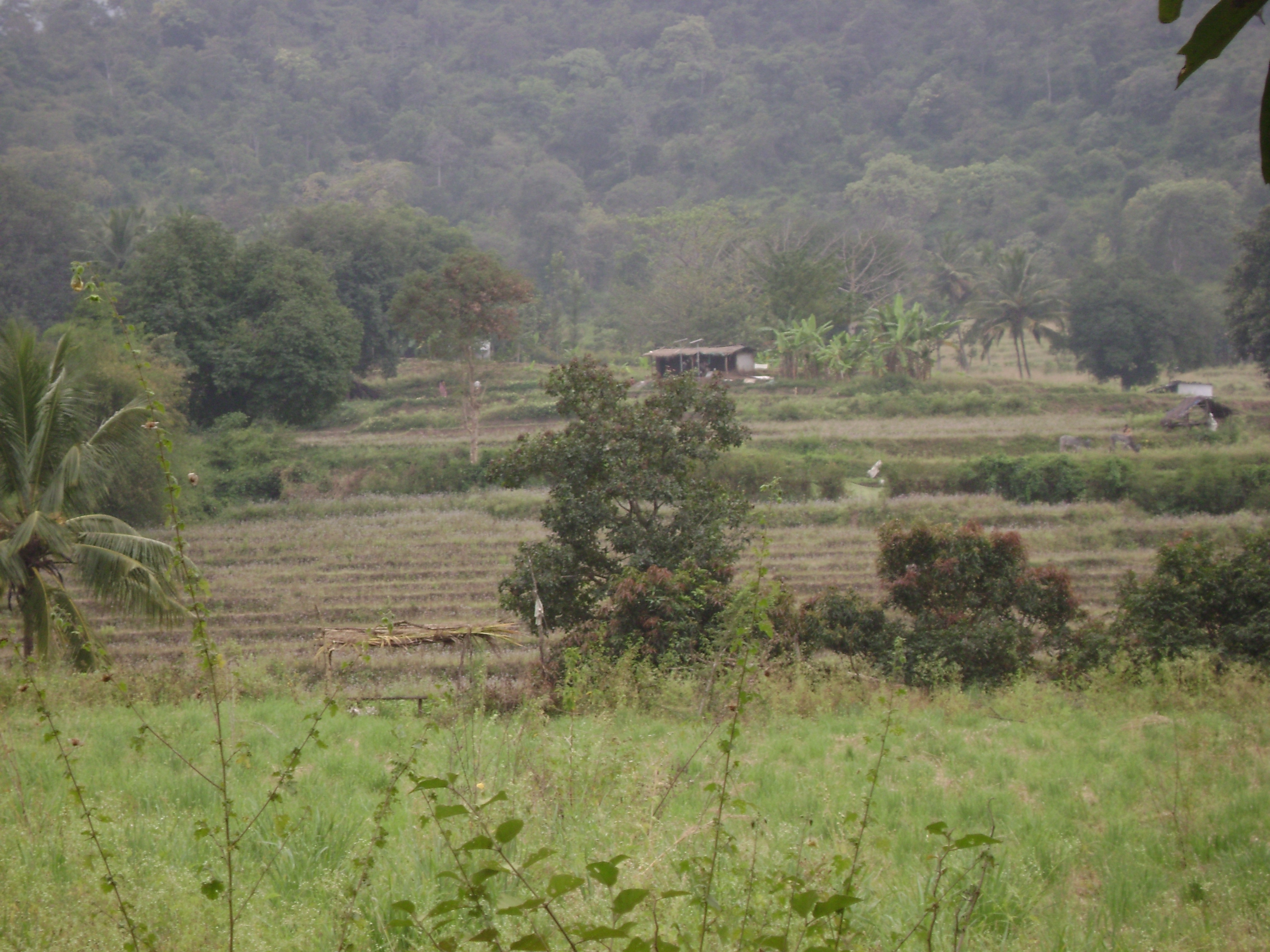 field and house at Manjampatti village